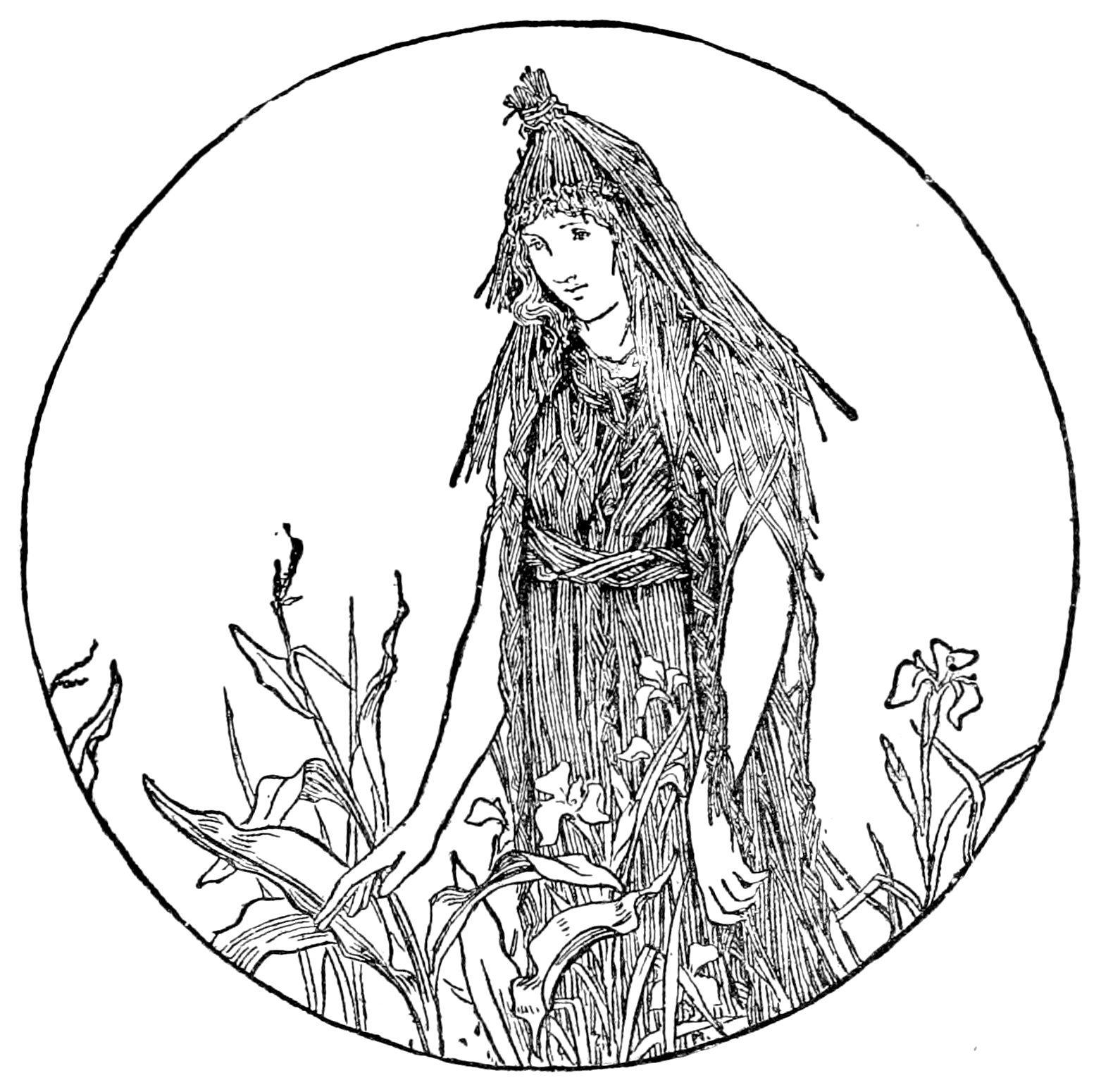 illustration from a book of fairy tales